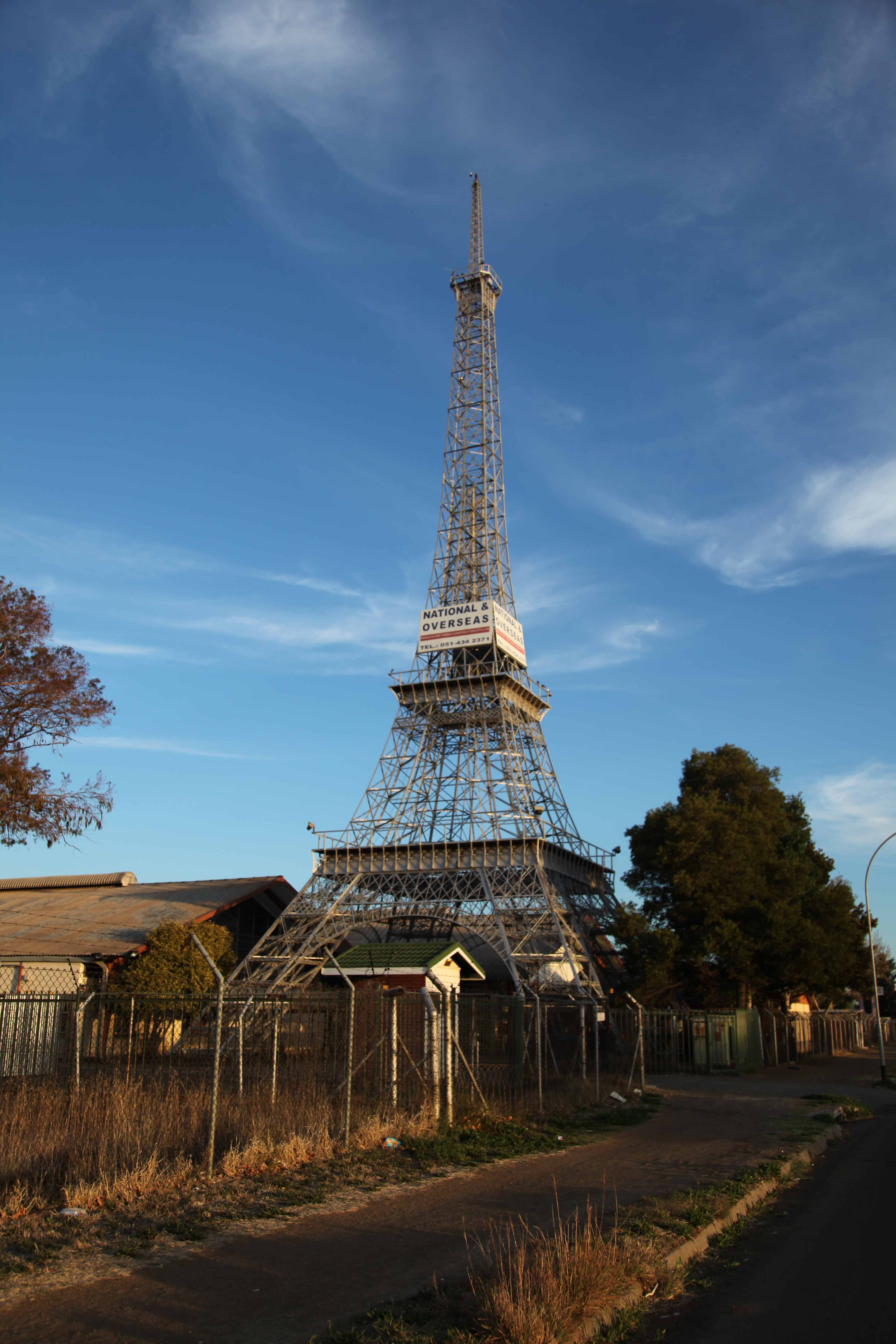 An Eiffel Tower reproduction in Bloemfontein, South Africa